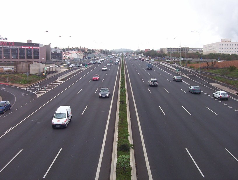 Autopista TF-5 passing by the Guajara Commercial Area and the Central Campus, Santa Cruz de Tenerife.